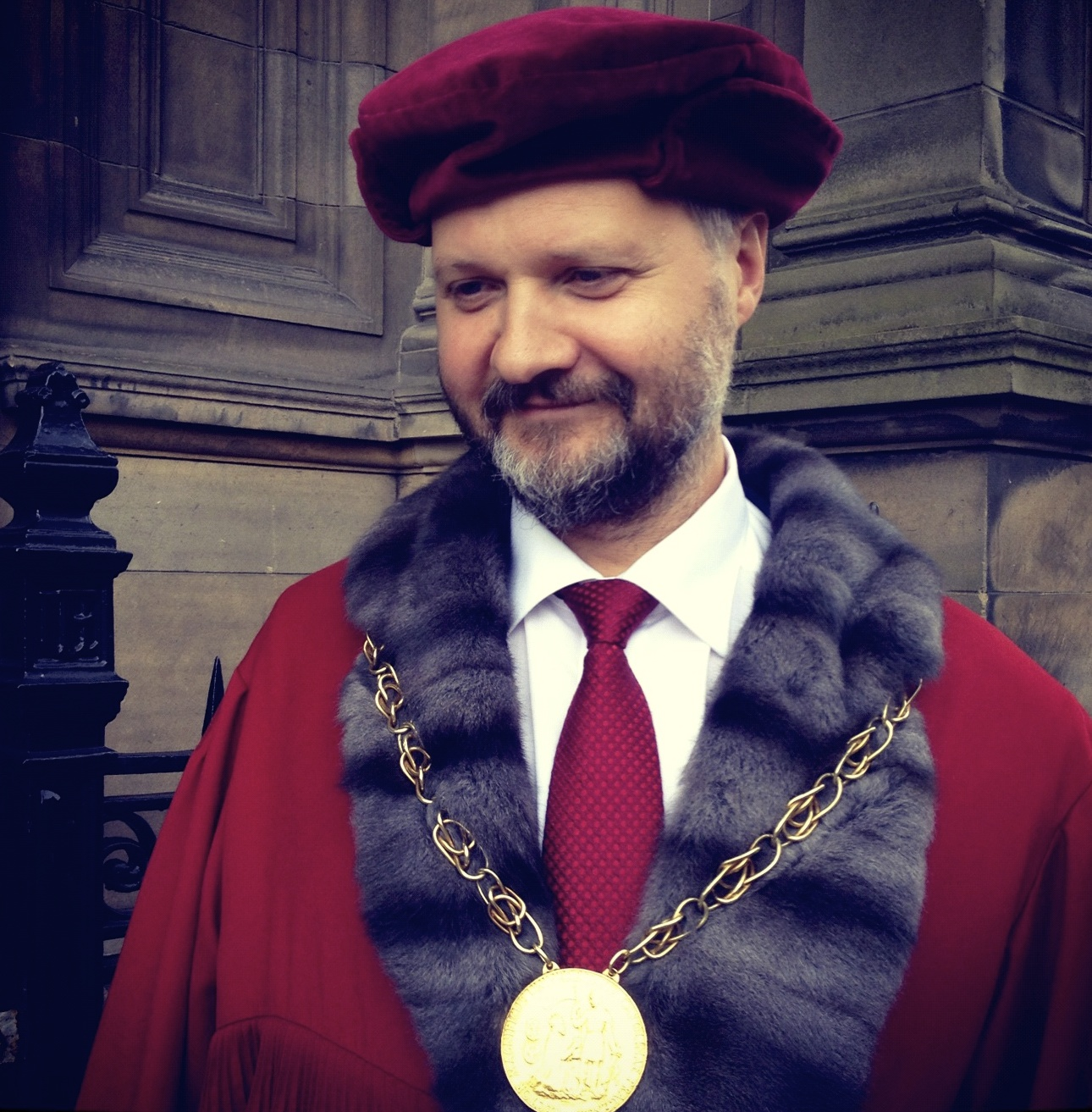 Vaclav Hampl in Edinburgh